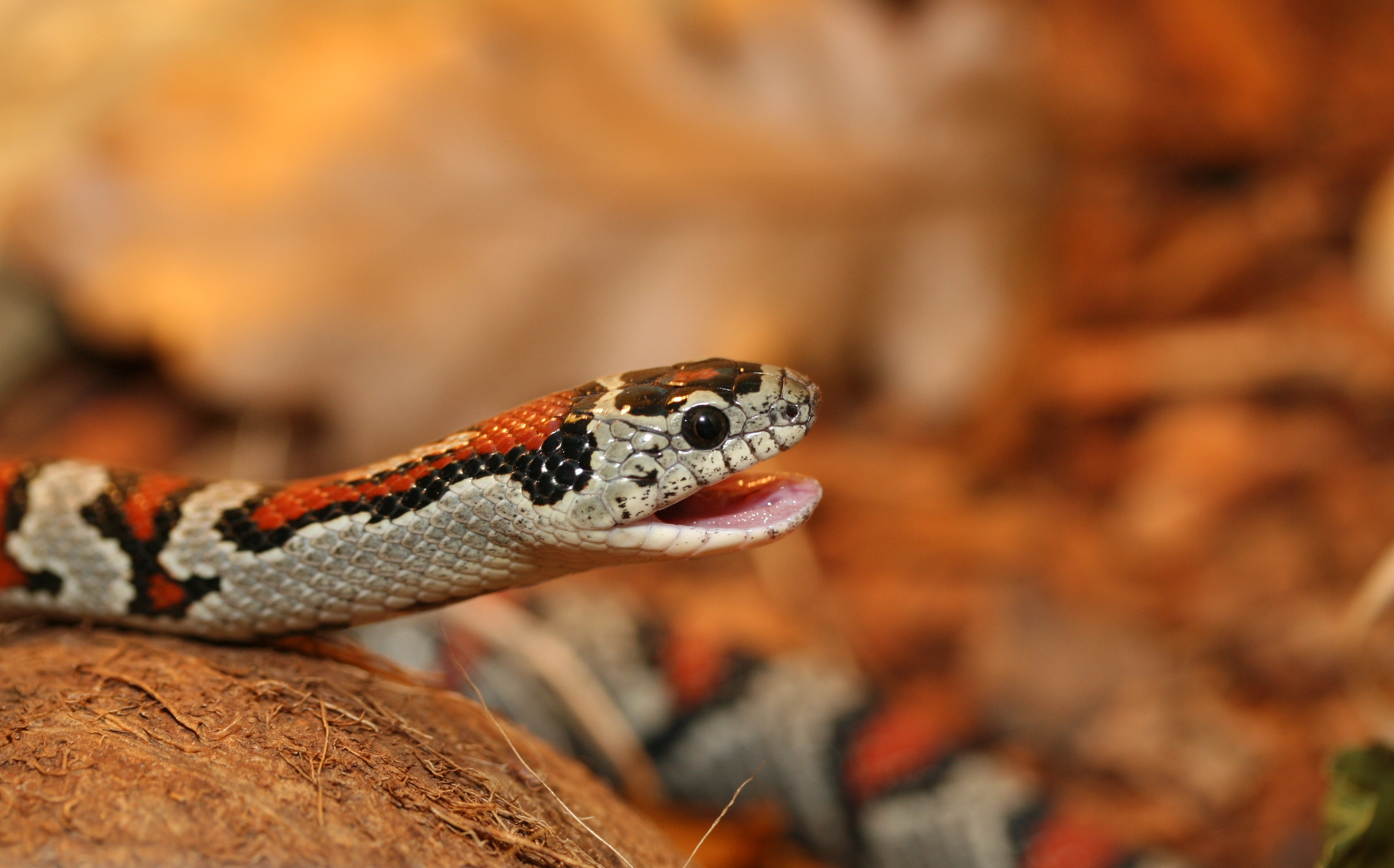 Lampropeltis Mexicana Greeri snake in private collection of Jakub Seif.